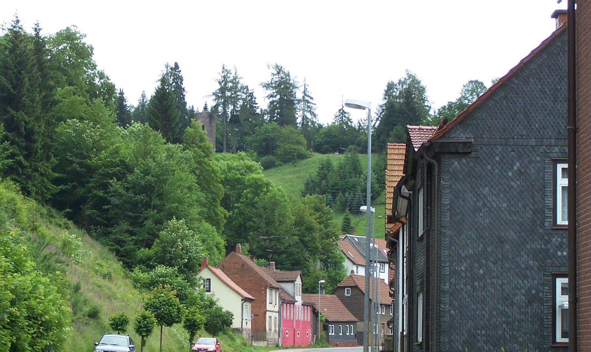 A view from the village Schwarzwald to the castle.